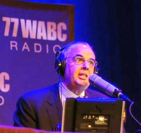 "An Evening with John Batchelor" at the Times Square Hard Rock Cafe on Tuesday Oct 26 [2010] from 9p-midnight.